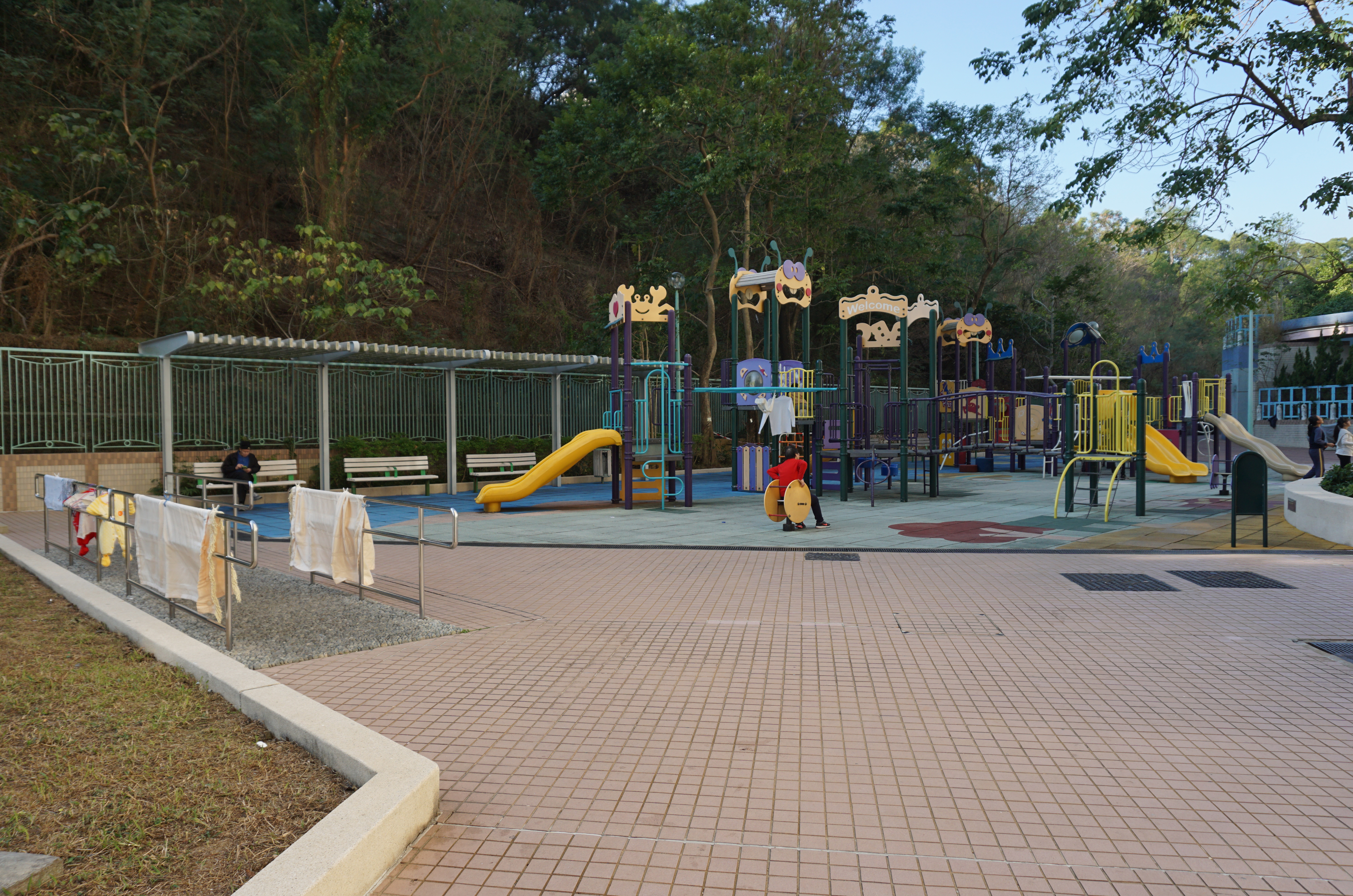 Cheung Wang Estate in Tsing Yi, Hong Kong.